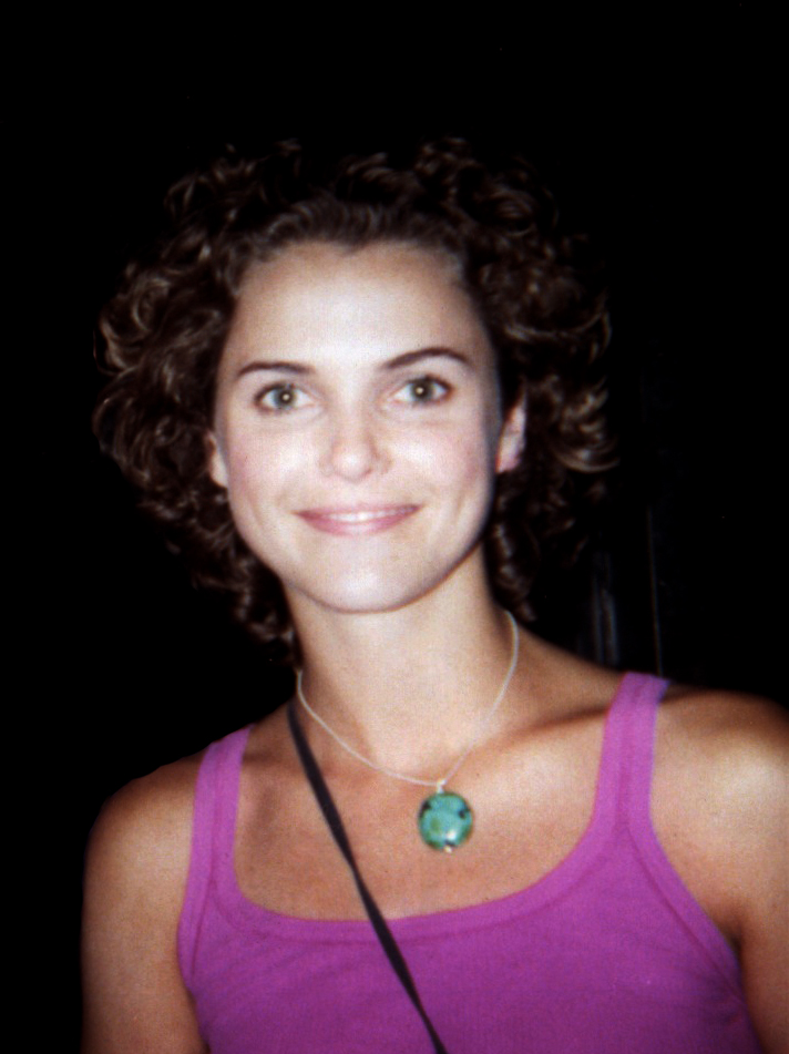 The American actress Keri Russell.